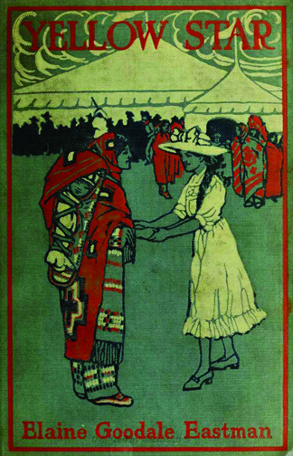 Novel about a young Ojibwe woman who must chose between life on her reservation or life in the European-American dominated East.